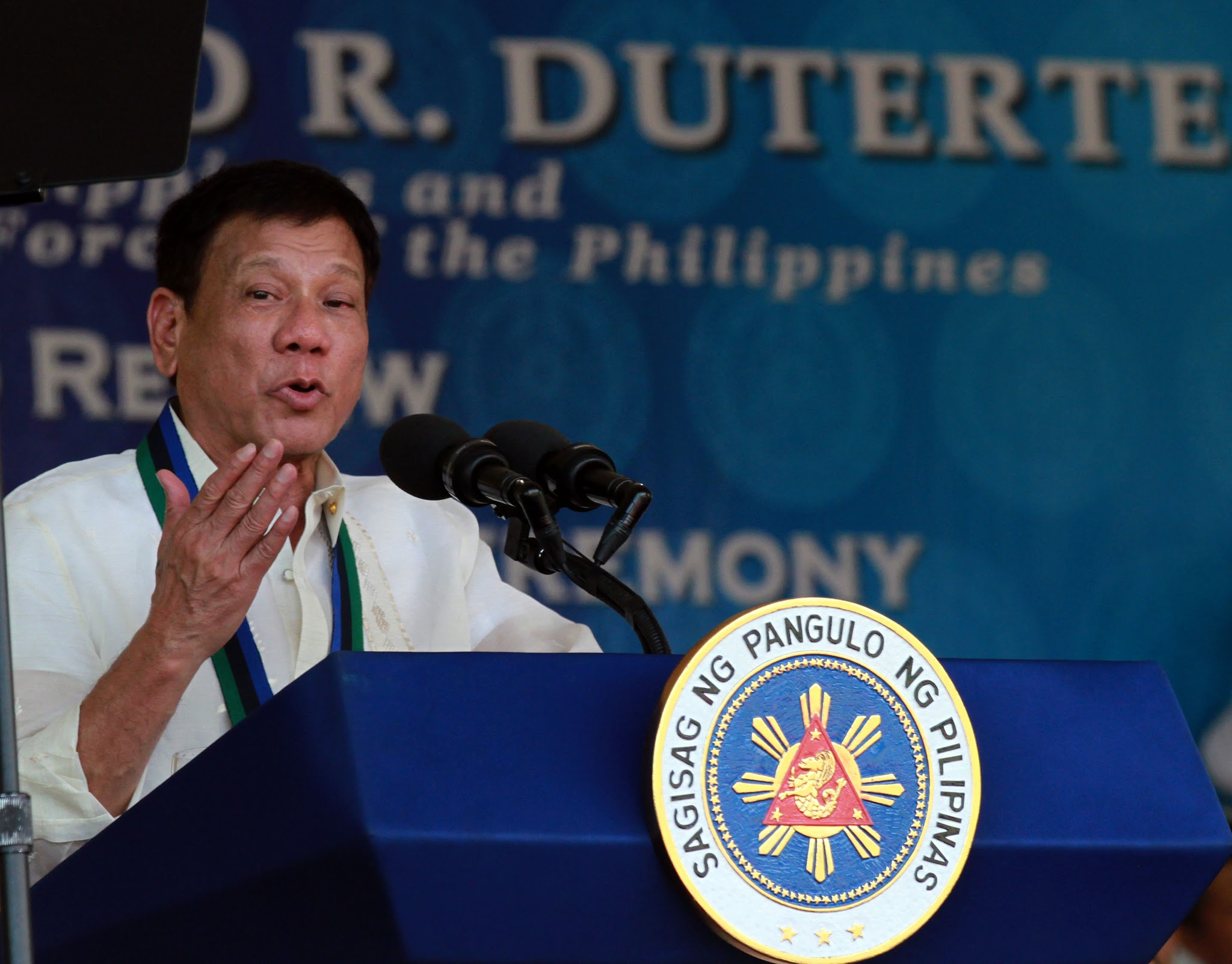 President Rodrigo R. Duterte delivers a speech during the turnover rites of the Armed Forces of the Philippines at Camp Aguinaldo on Friday where he discussed historical facts which led to the Mindanao problem and other issues relating to peace and order and the campaign for change towards ending hostilities with the CPP-NPA, MILF and MNLF